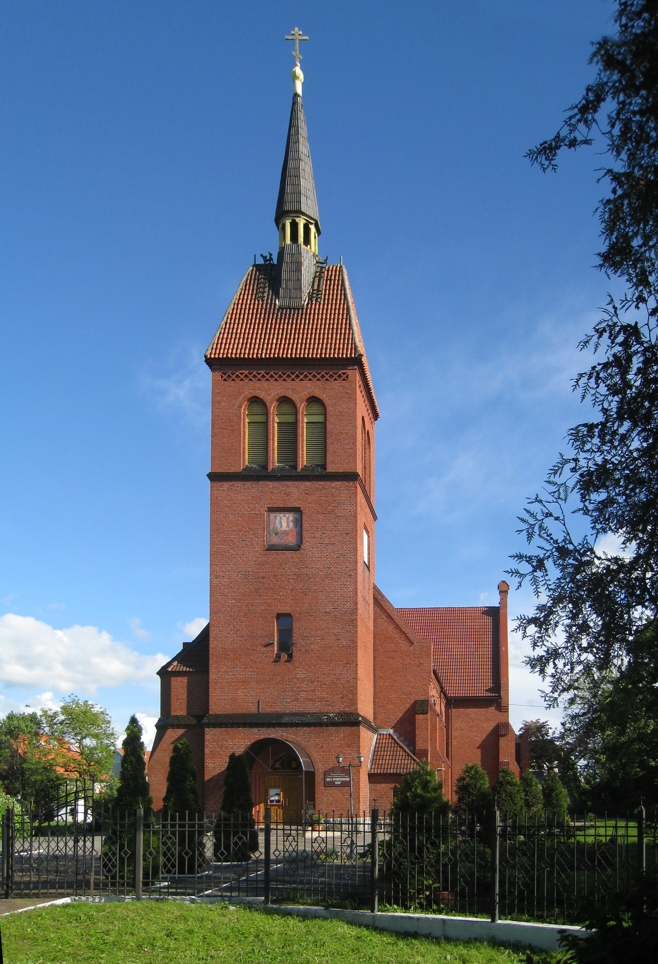 Zelenogradsk